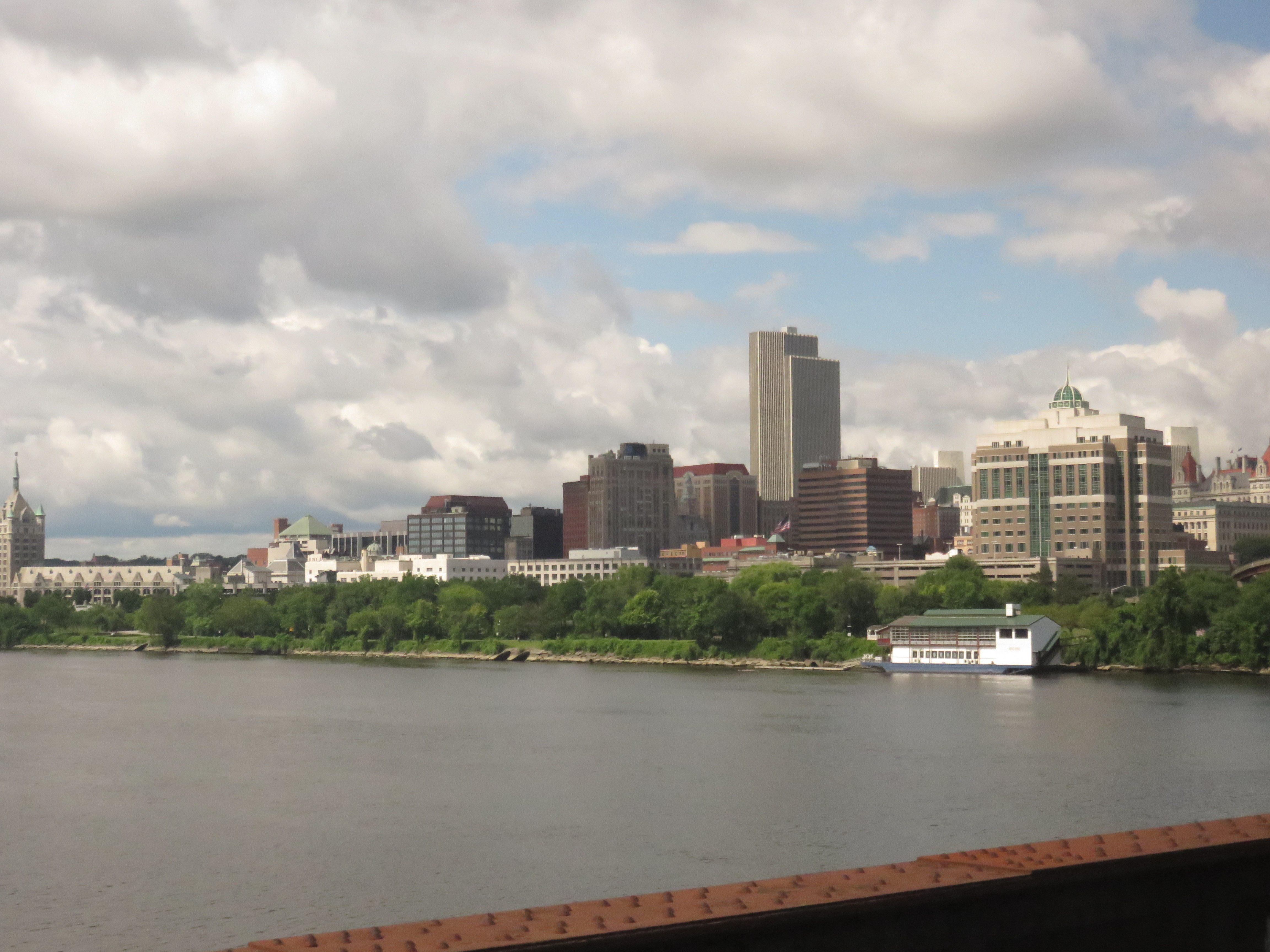 Skyline of Albany, New York from the Adirondack Amtrak train in 2017